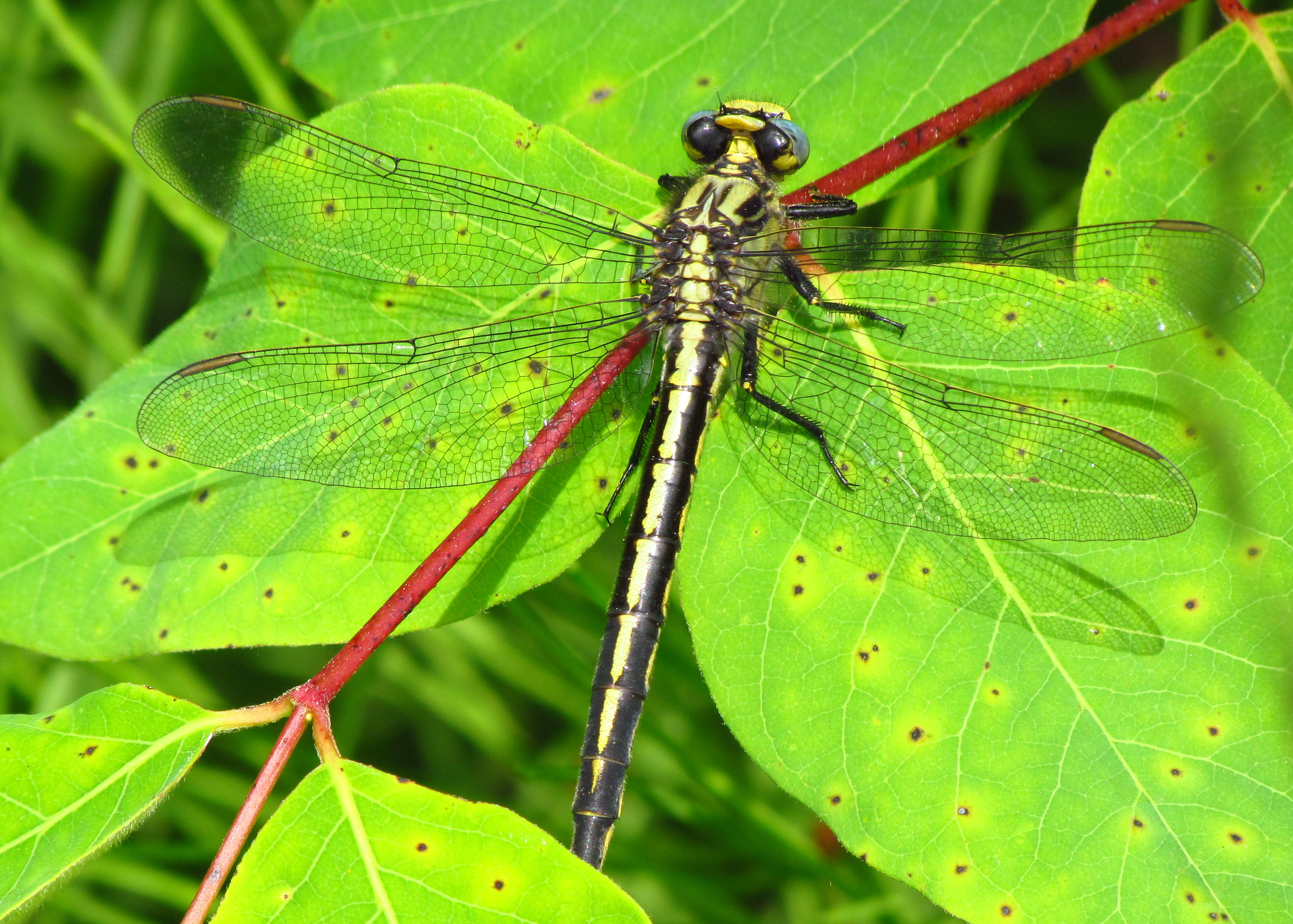 Horned Clubtail (Arigomphus cornutus), Mer Bleue Conservation Area, Ottawa, Ontario, Canada